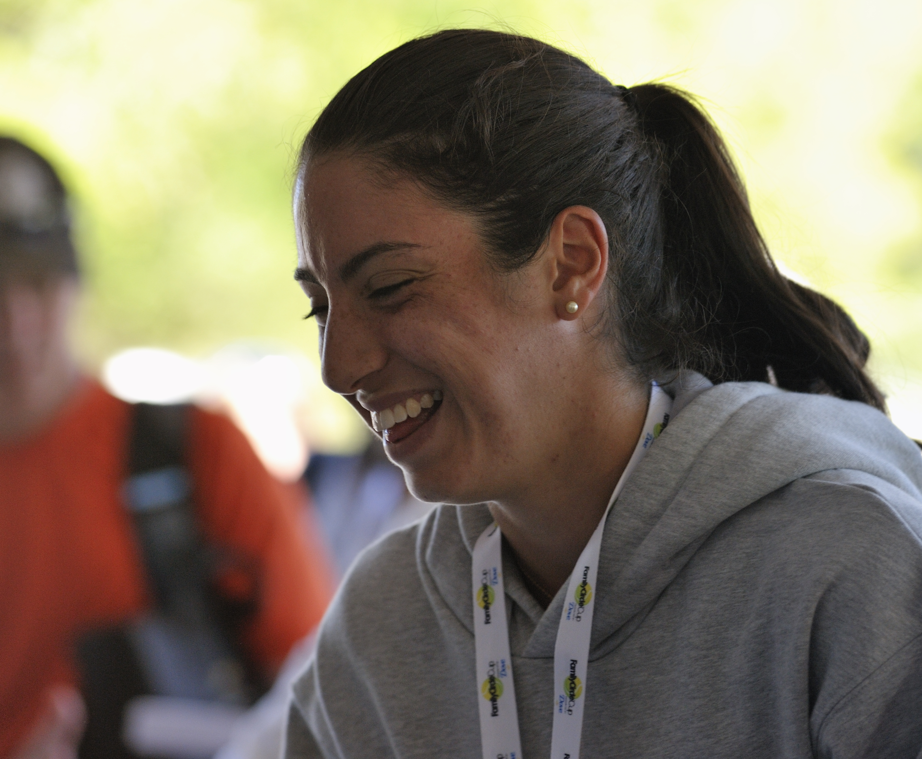 murphy cracks up Christina McHale